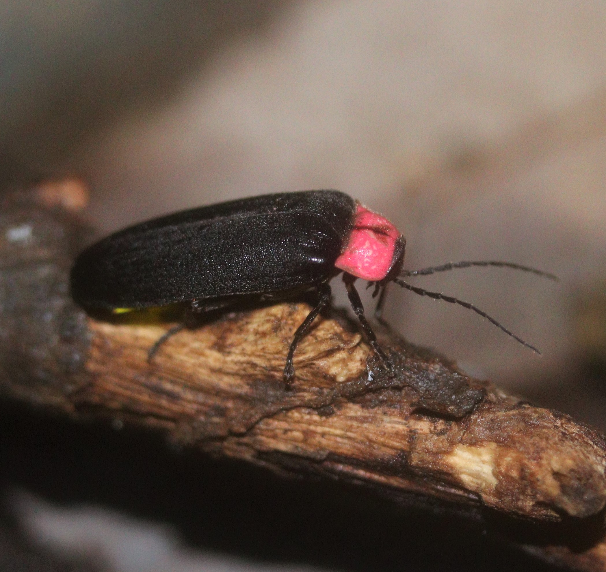 Luciola cruciata in Taiki, Mie Prefecture, Japan. Canon EOS Kiss X10